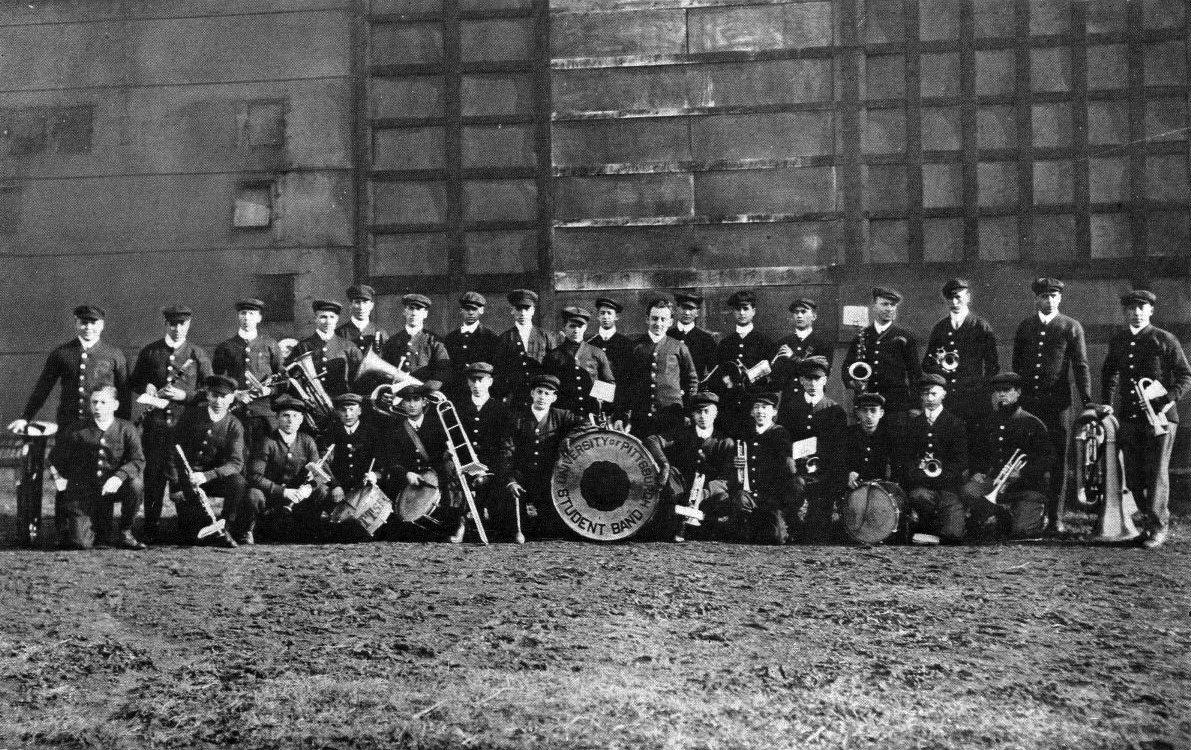 The 1912-1913 University of Pittsburgh Marching Band, in its second year of existence, poses in front of the Forbes Field scoreboard.